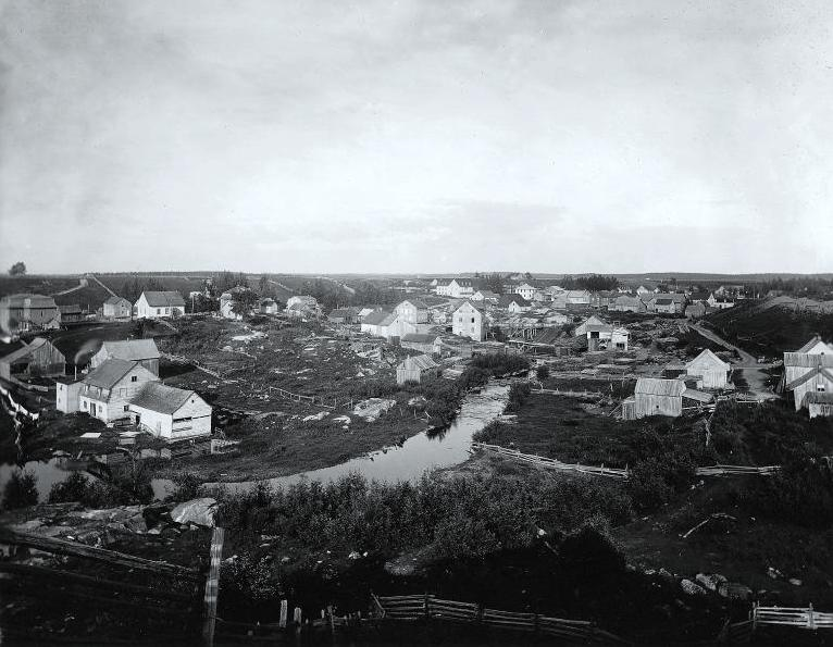 Photograph, Hébertville, Lake St. John, QC, about 1906, Wm. Notman & Son. Silver salts on glass - Gelatin dry plate process - 20 x 25 cm